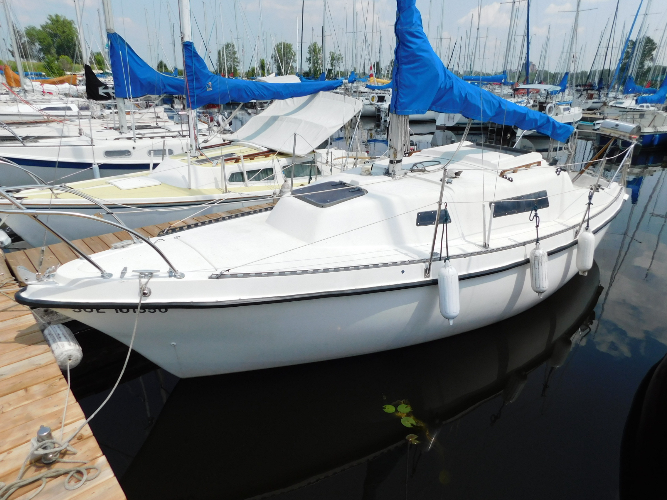 A Challenger 24 sailboat named Alcyone.